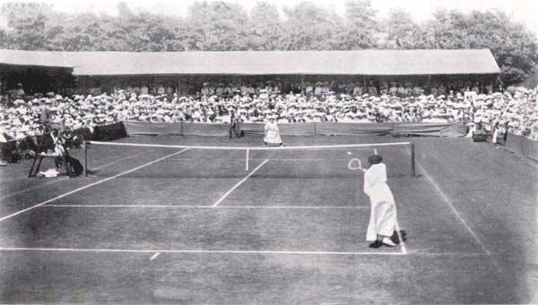 Original description: "The challenge round at Wimbledon, 1905: Miss Sutton (America), v. Miss D.K. Douglass" Depicted persons: May Sutton (1886-1975), US tennis player Dorothea Douglass-Chambers (1878-1960), English tennis player